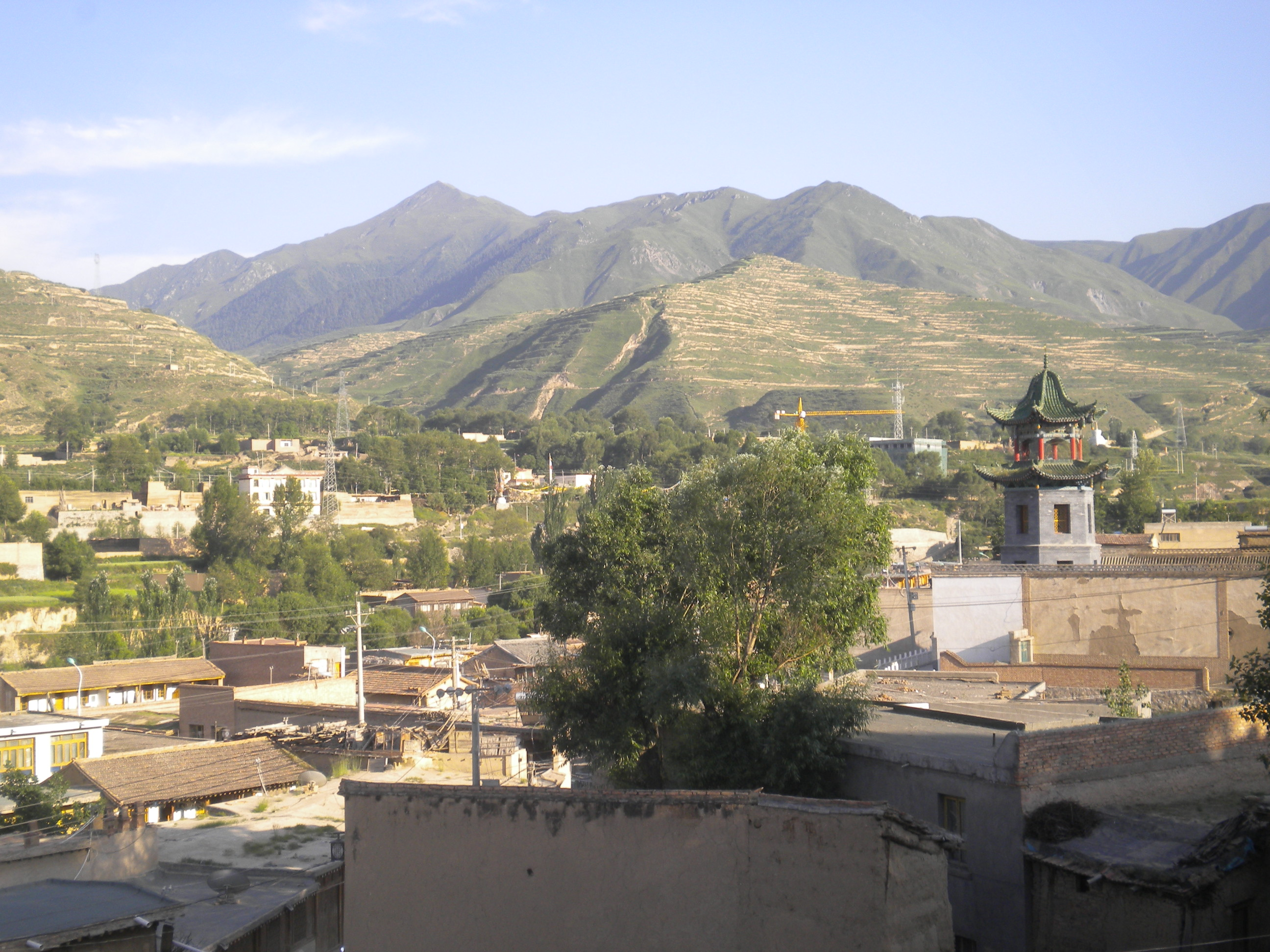 View of Repkong old town and Repkong mosque minaret